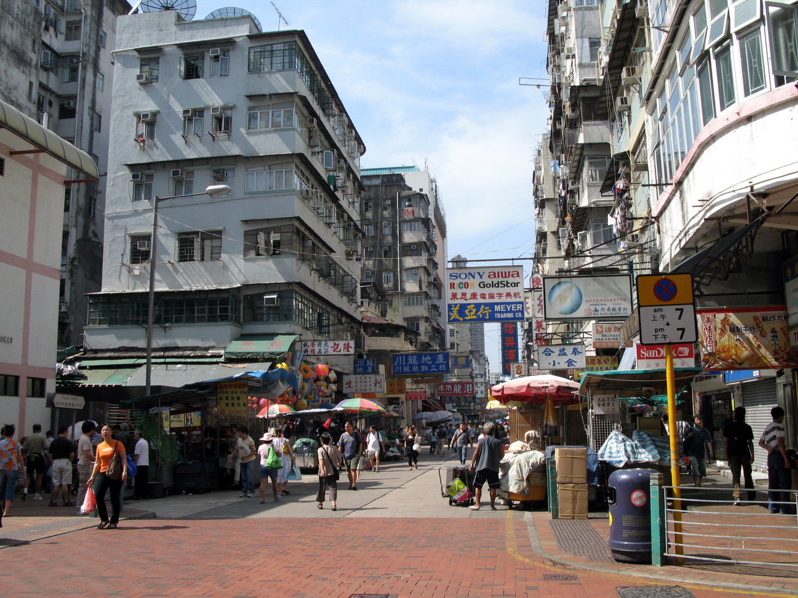 HK Sham Shui Po District